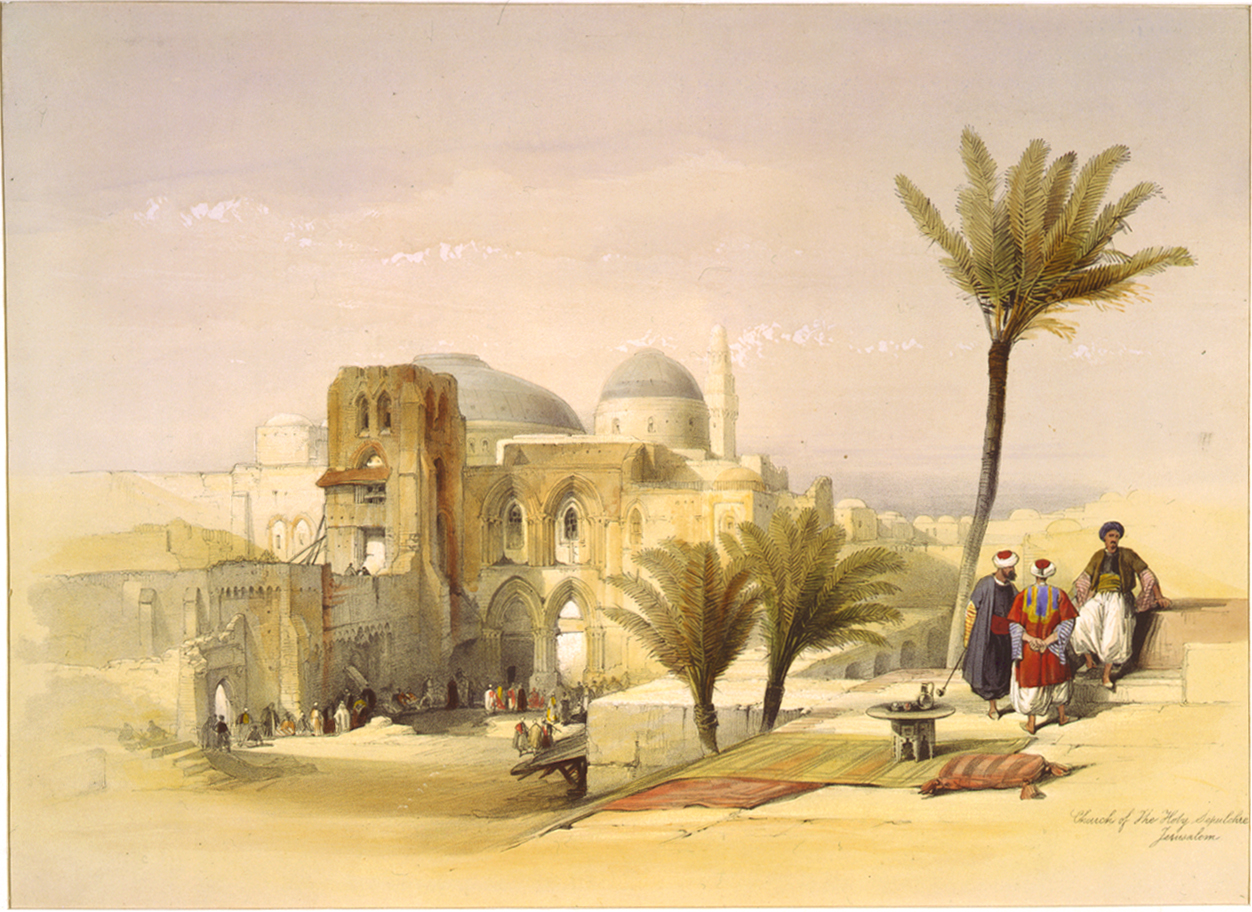 Church of the Holy Sepulchre - XIX c; by David Roberts (and Louis Haghe - lithographer)